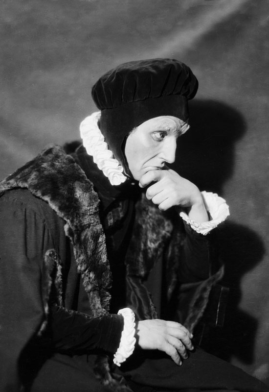 The Swedish actor Gunnar Olsson (role portrait). Photo taken sometime 1925–1941.